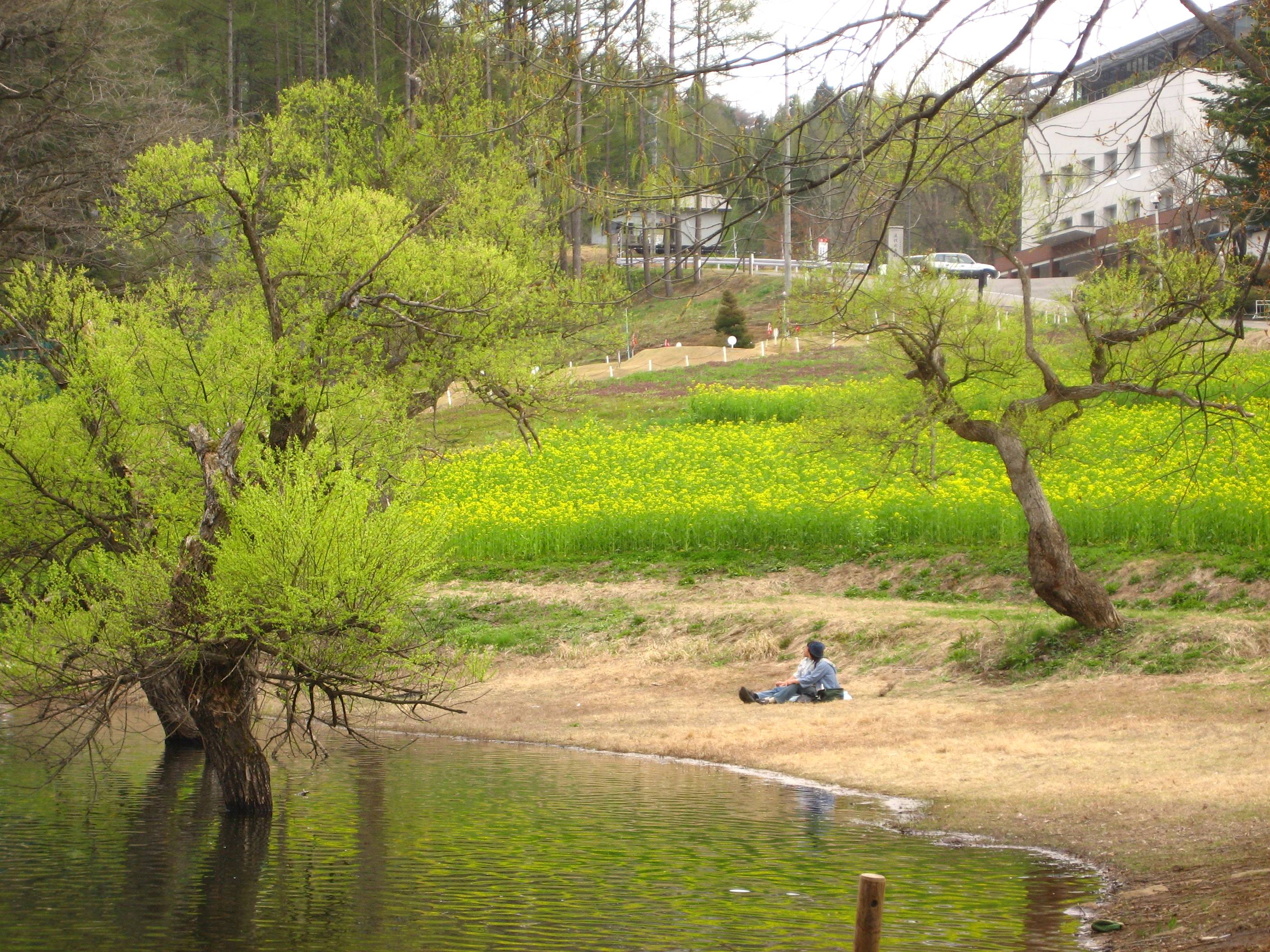 Hokuryuko (北竜湖) is in Iiyama city, Nagano prefecture, Japan.